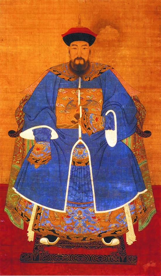 Hong Chengchou or Hung Cheng-chou (Chinese: 洪承疇; Pinyin: Hóng Chéngchóu; born 1593) was a Military commander at the end of the Ming Dynasty. He was one of the leaders that created the Qing Dynasty.Wu Sangui was very fearful of him and it was only after Hong died that Wu began to rebel.